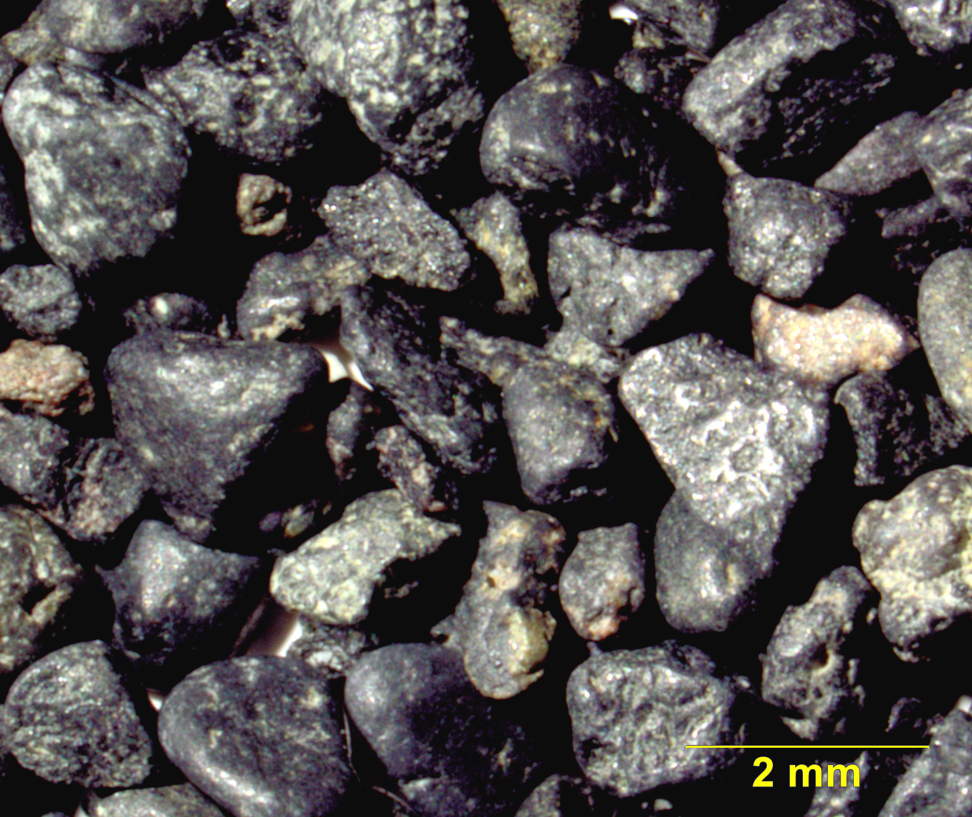 Black sand from a beach in Maui, Hawaii. Photograph by [1] (Department of Geology, The College of Wooster).